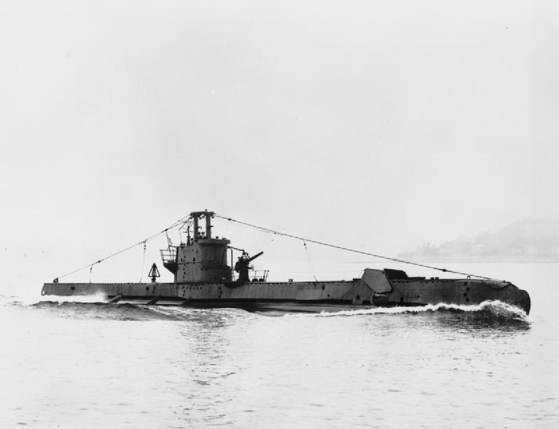 British S class submarine HMSM SEA ROVER underway on the Clyde.